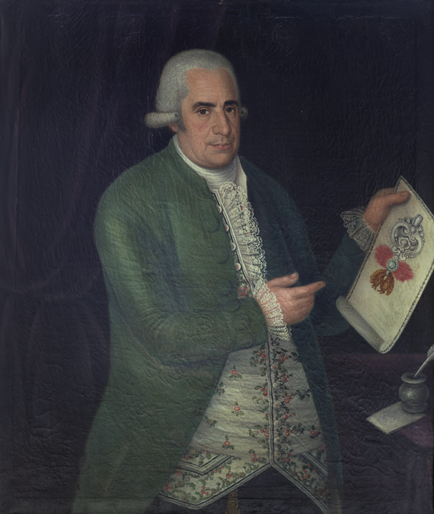 Portrait of Leonardo Chopinot, French Royal Jeweler of Charles IV of Spain. In the portrait, he is seen holding a design of a highly enriched Order of the Golden Fleece.